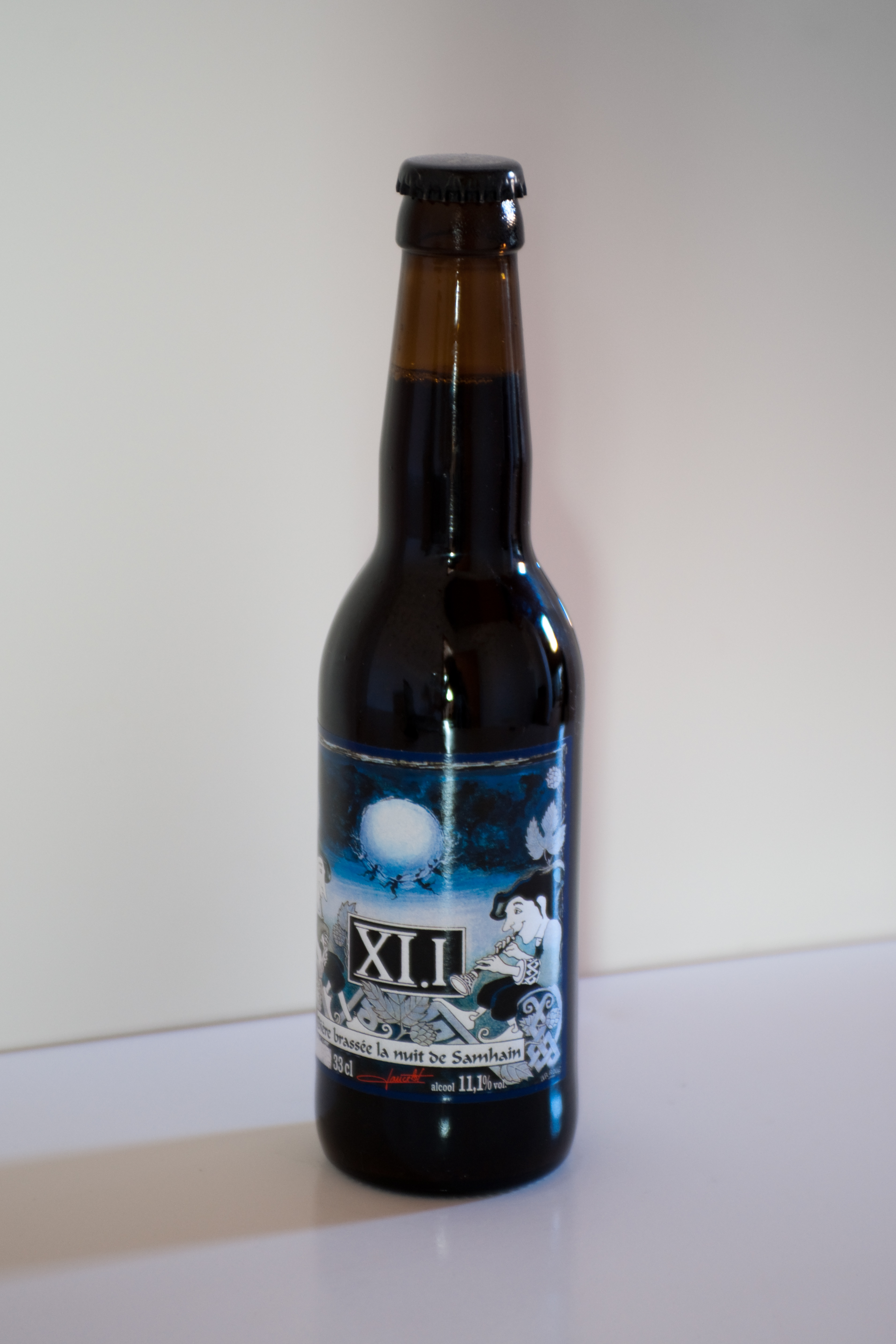 Beer brewed during the night of Samhain.